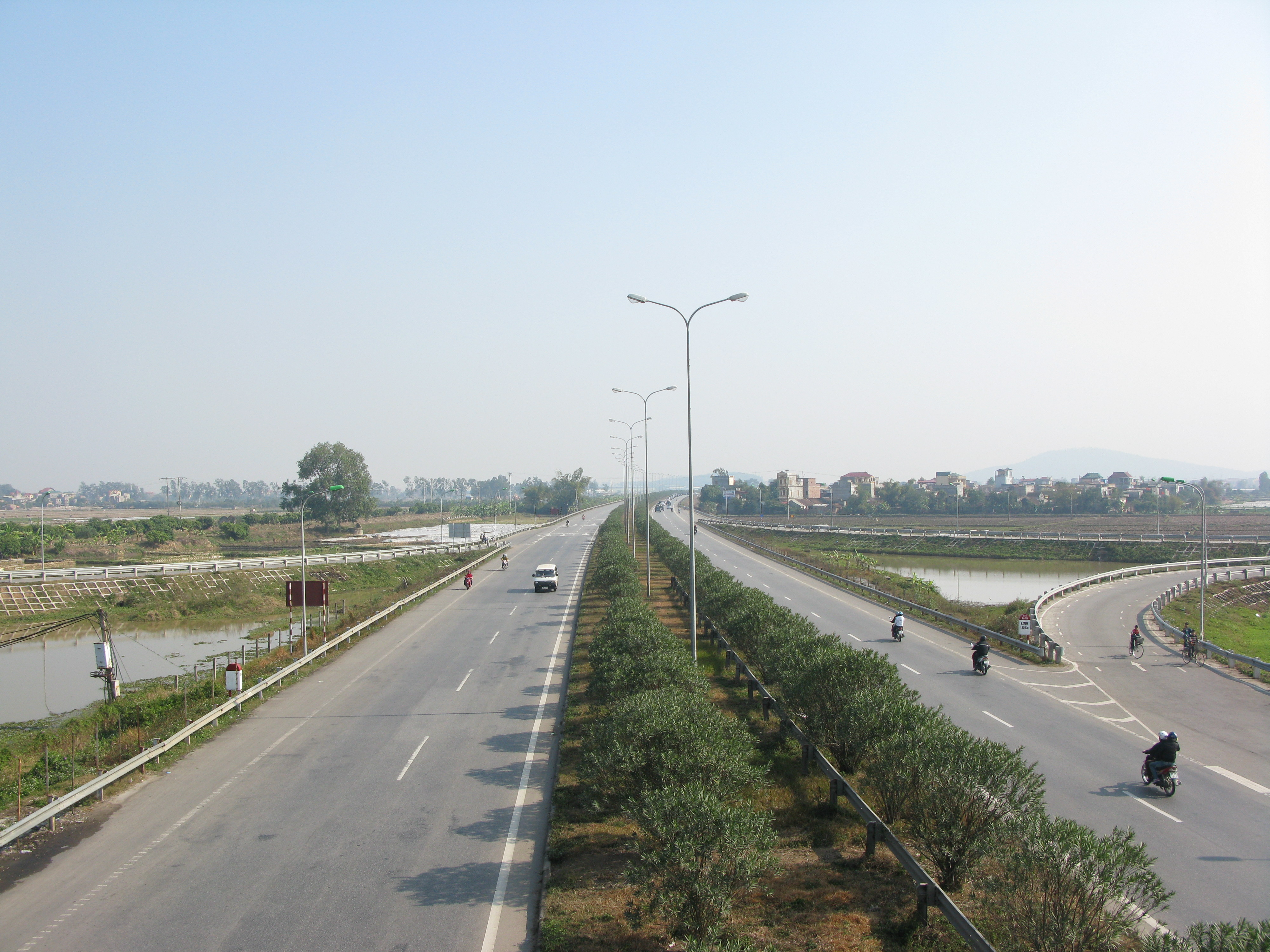 National Road 1A, Vietnam